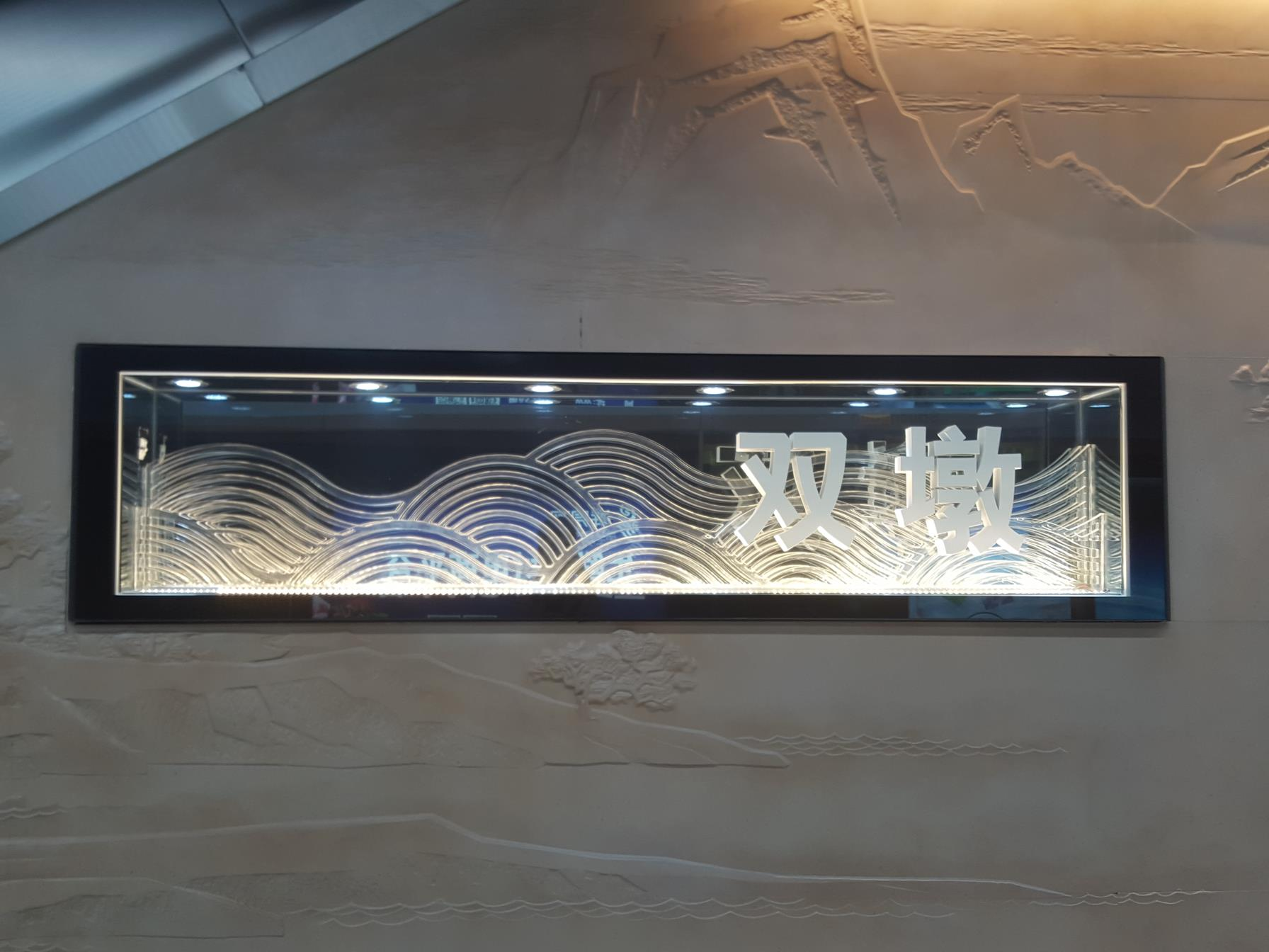 Name Box of Shuangdun Station